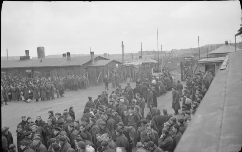 The British Army in North-west Europe 1944-45 Liberated naval and merchant seaman POWs at Marlag und Milag Nord at Westertimke, 29 April 1945.